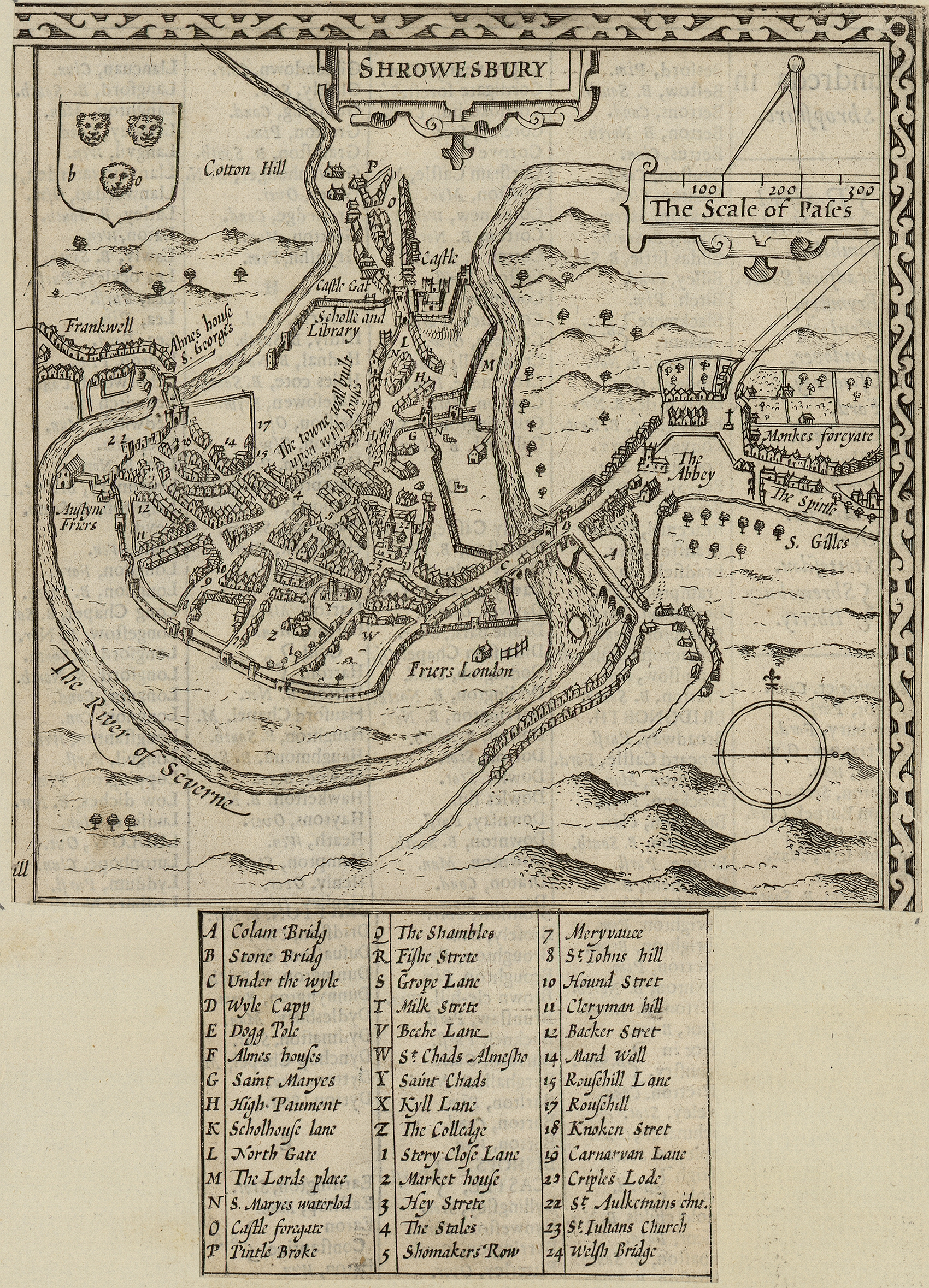 An image from a set of 8 extra-illustrated volumes of A tour in Wales by Thomas Pennant (1726-1798) that chronicle the three journeys he made through Wales between 1773 and 1776. These volumes are unique because they were compiled for Pennant's own library at Downing. This edition was produced in 1781. The volumes include a number of original drawings by Moses Griffiths, Ingleby and other well known artists of the period. Thomas Pennant (1726-1798)